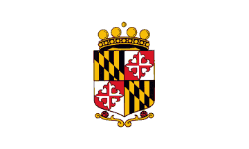 The flag of Anne Arundel County, Maryland.